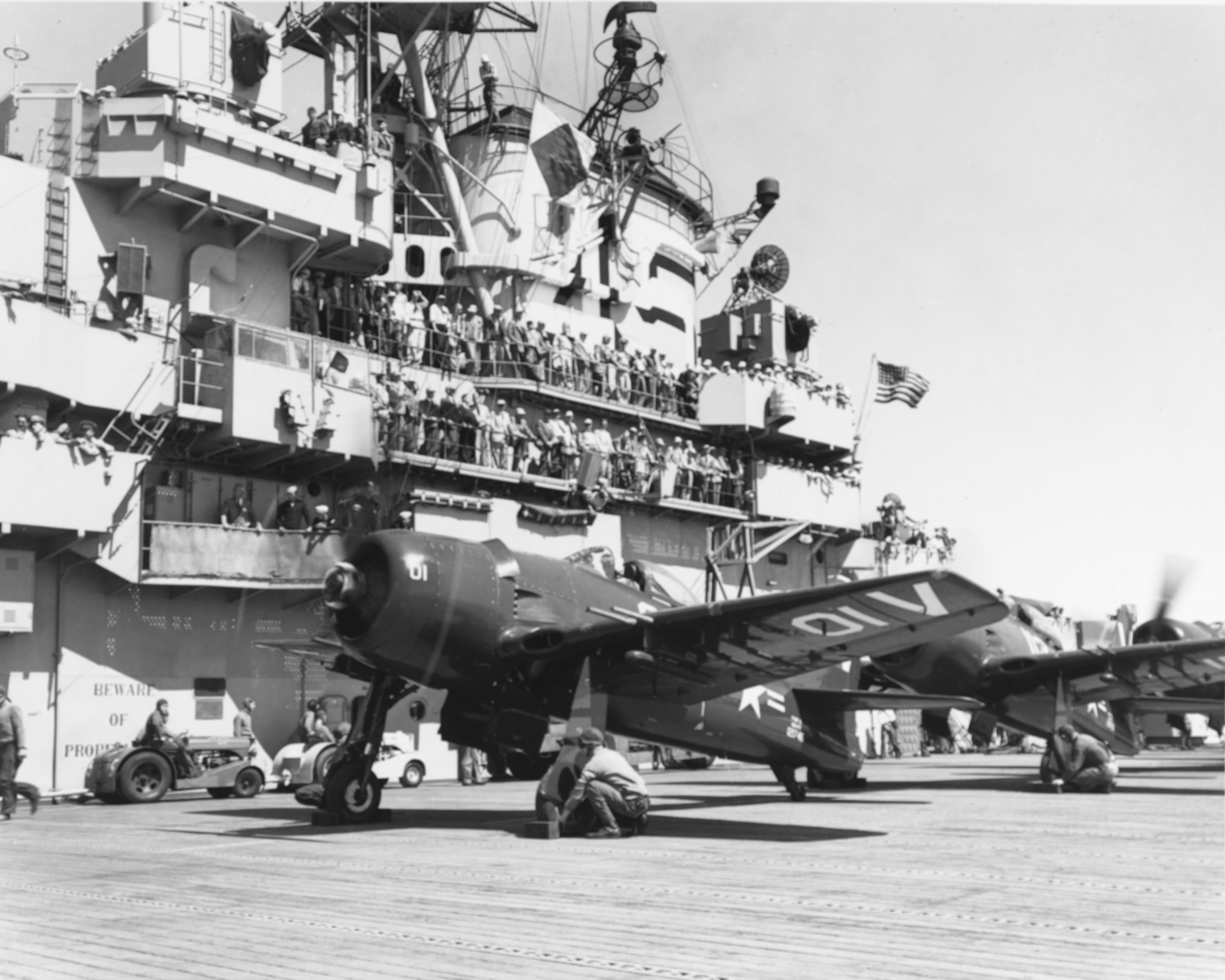 U.S. Navy Grumman F8F-2 Bearcats of Fighter Squadron 111 (VF-111) "Sundowners", assigned to Carrier Air Group 11 (CVAG-11), on the aircraft carrier USS Valley Forge (CV-45) in September 1949. This appears to be a demonstration, as there are a large number of civilians watching from the island walkways. The two F8F-2s are BuNos 121746 (left) and 121722 (right). Note the men standing by the wheel chocks, and the flight deck tractors standing by at left.